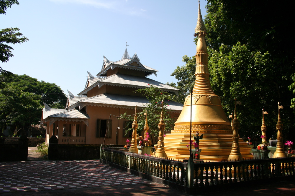 Evidence of the ethnic diversity of the Cox's Bazar region, this Buddhist temple on Maheshkali Island is mainly visited by members of the Rakhine community (an ethnic group from Burma).IMG_2545